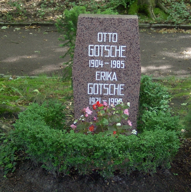 Grave of Otto Gotsche on Zentralfriedhof Friedrichsfelde in Berlin